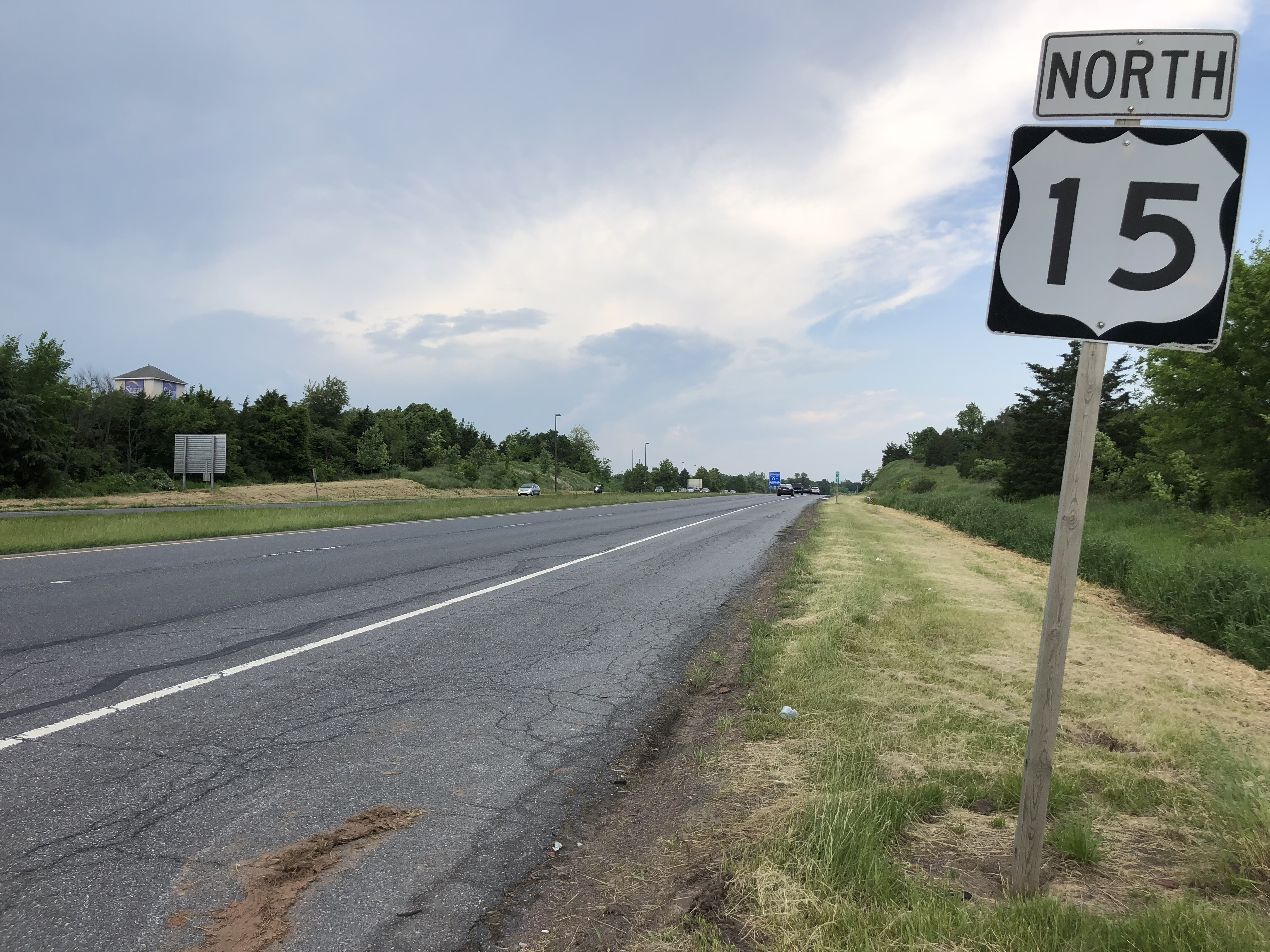 View north along U.S. Route 15 (Catoctin Mountain Highway) just north of Maryland State Route 140 (Main Street) in Emmitsburg, Frederick County, Maryland